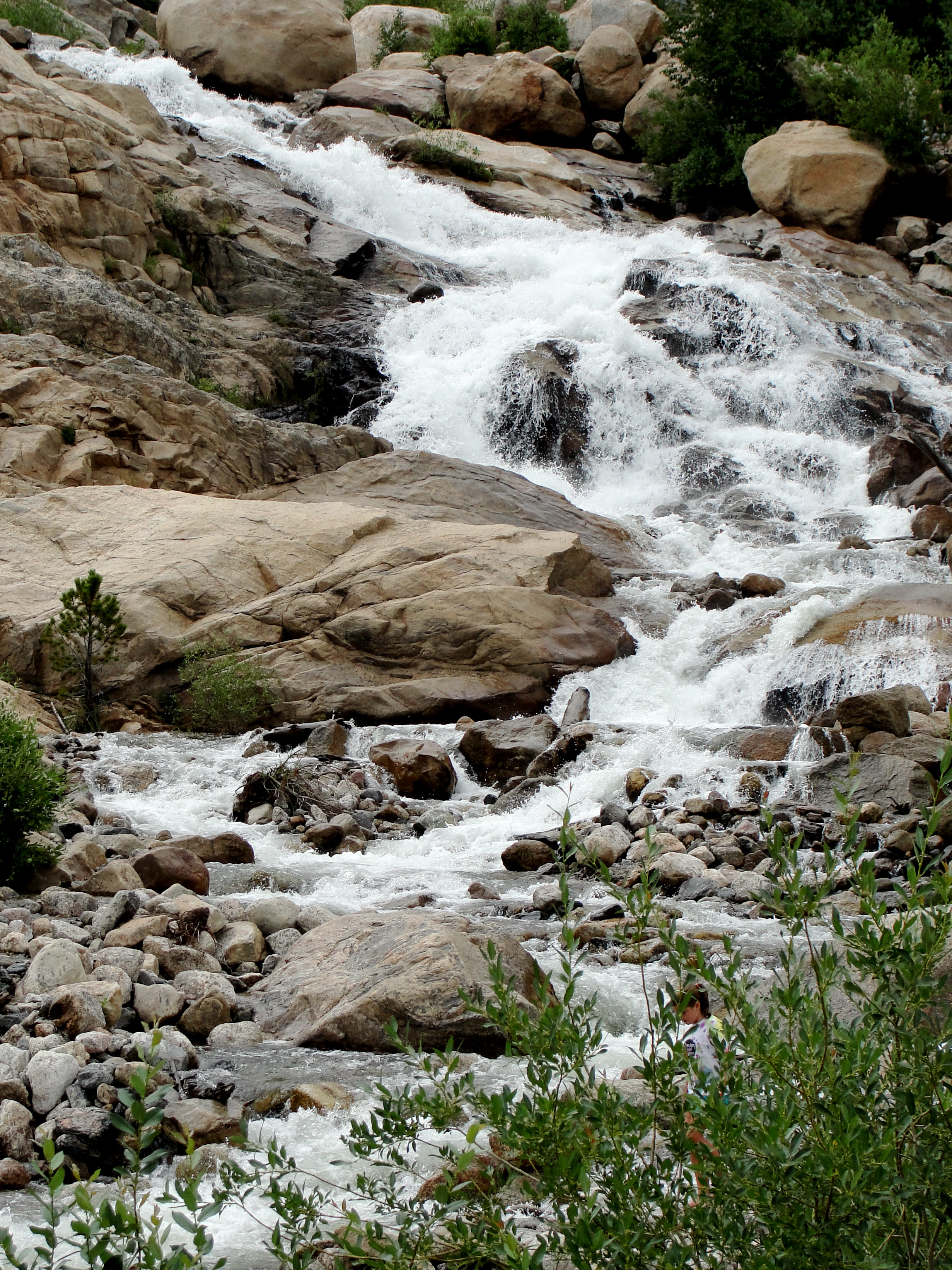 Alluvial Fan Falls. The falls at the Alluvial Fan, an area still recovering from a massive landslide that occurred on Fall River Road in 1982. Rocky Mountain National Park, Colorado